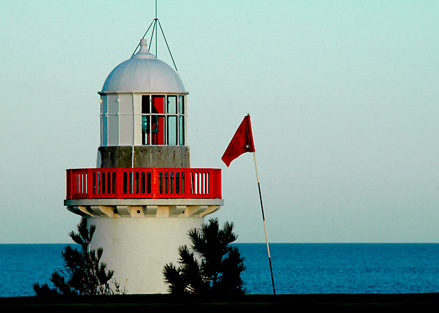 Dungarvan Lighthouse